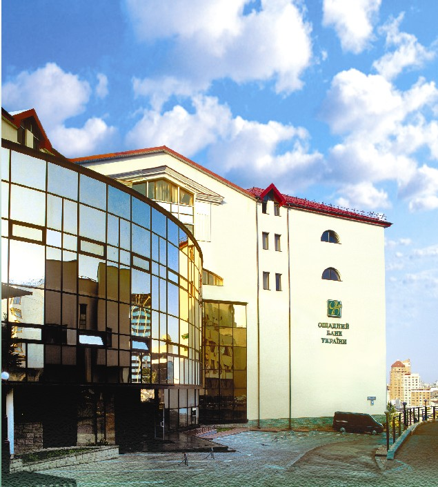 Head office of Oschadbank in Kiev, Ukraine